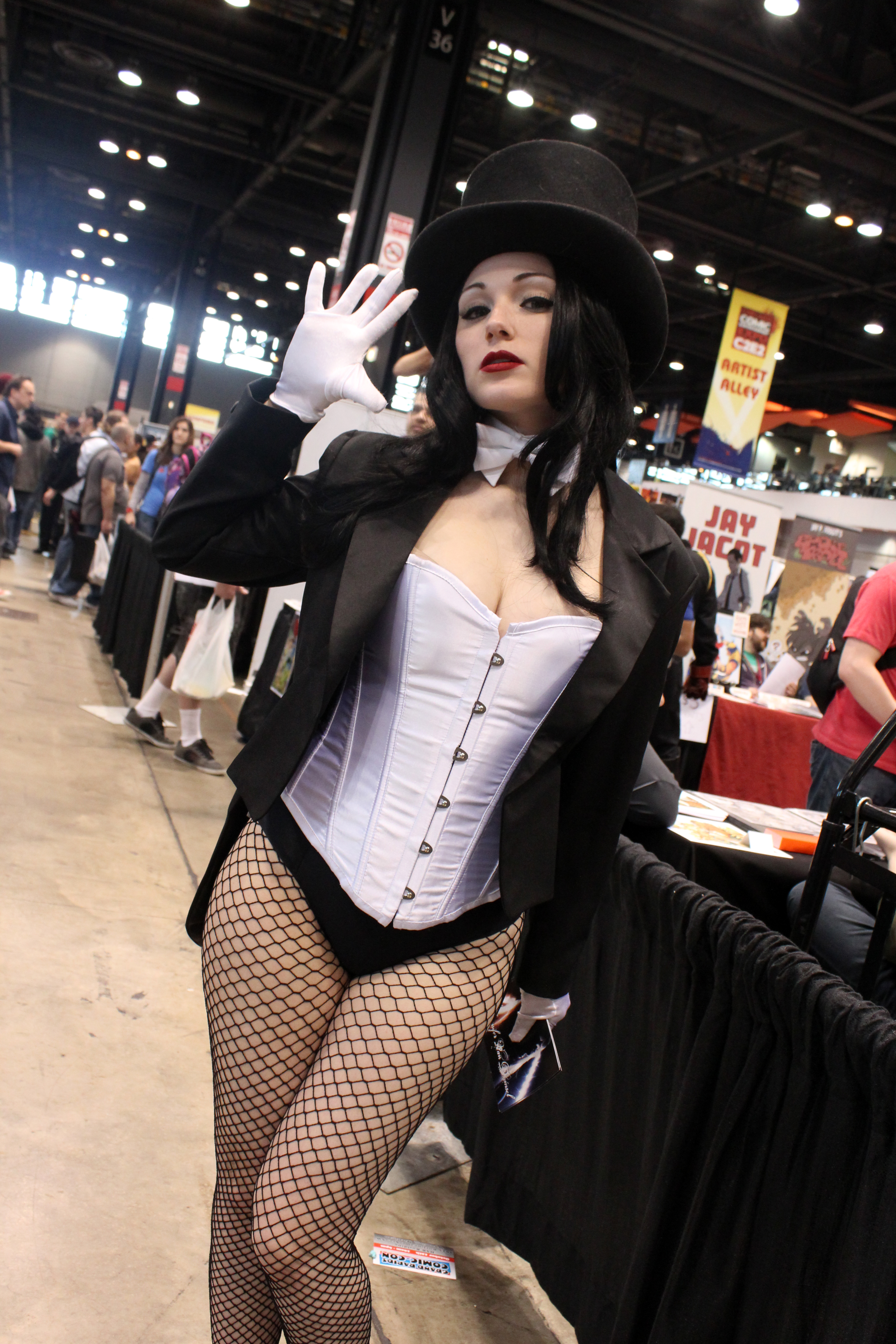 Cosplay at the 2013 Chicago Comic & Entertainment Expo (C2E2).